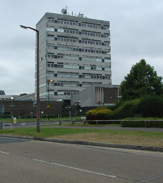 Crawley College. A view of this college of further education from next to the police station